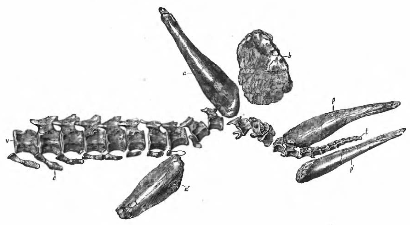 Caudal vertebrae, spines and plate of Diracodon laticeps (Stegosaurus).